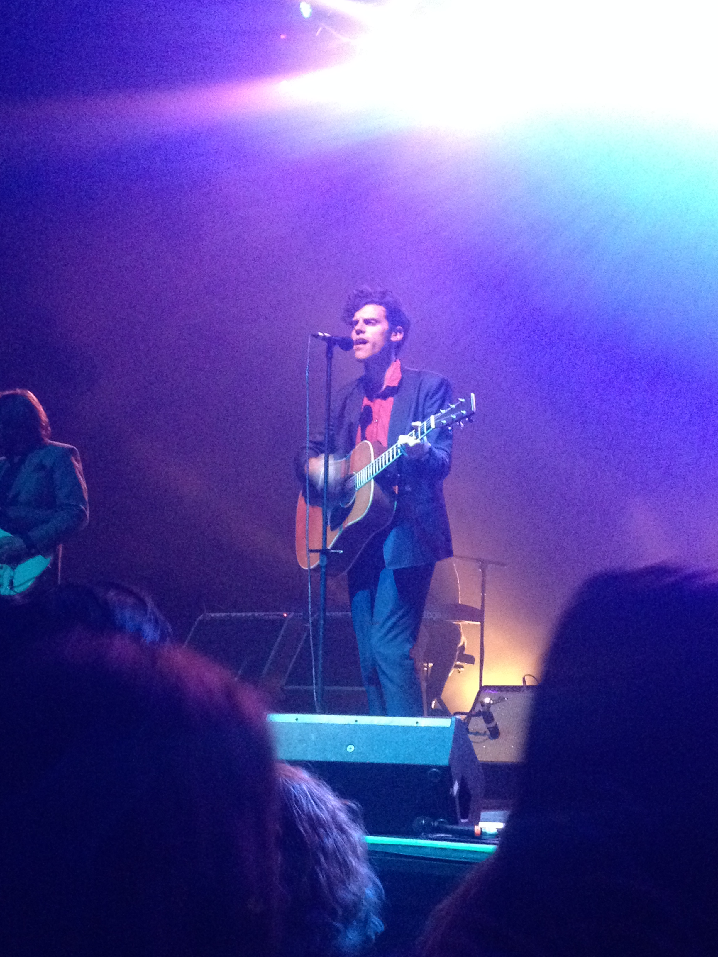 Noah and the Whale front man Charlie Fink during a performance at the Boston House of Blues in October 2013